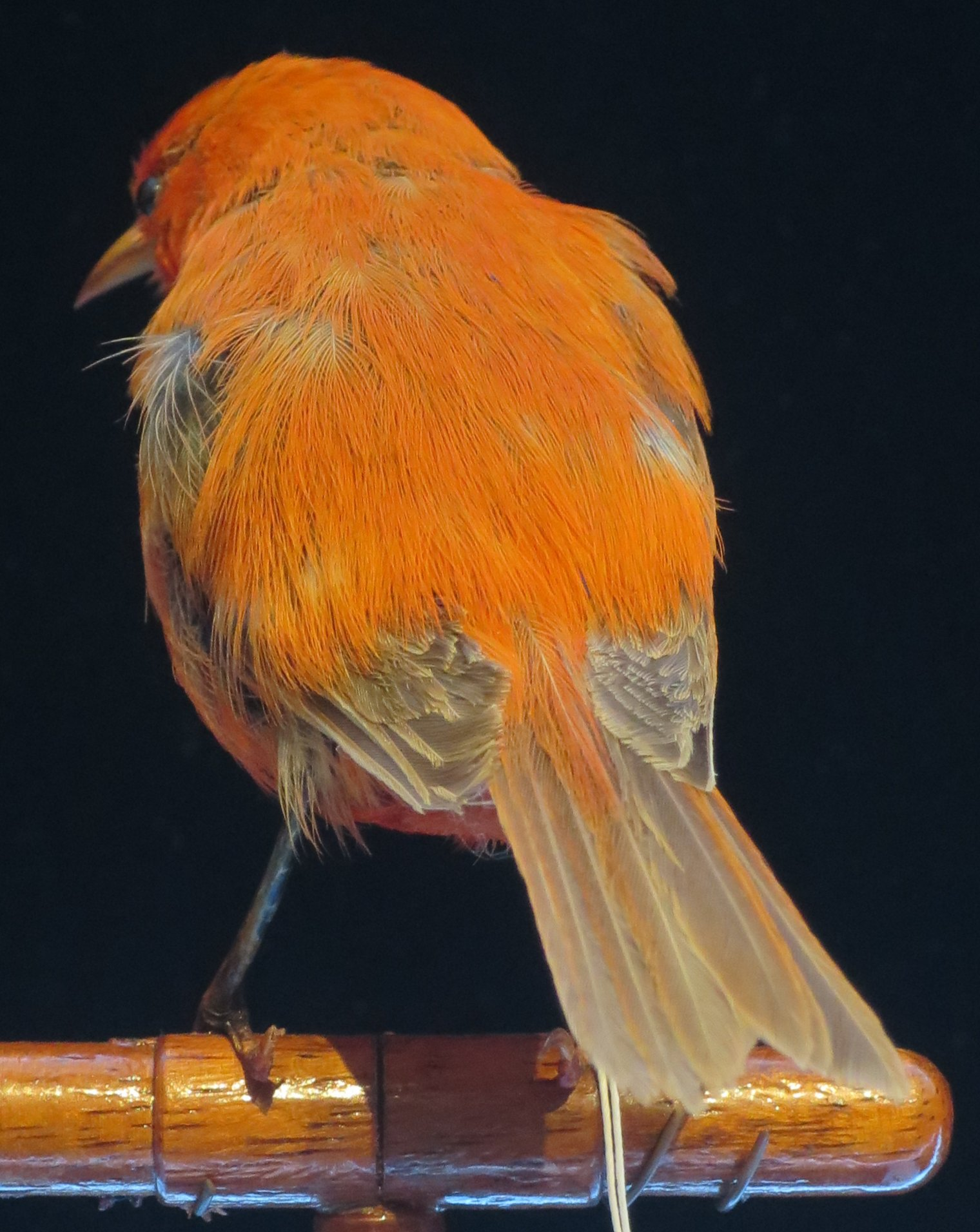 Oreomistis flammea Wilson, male (kakawahie from Molokai), Bishop Museum, Honolulu